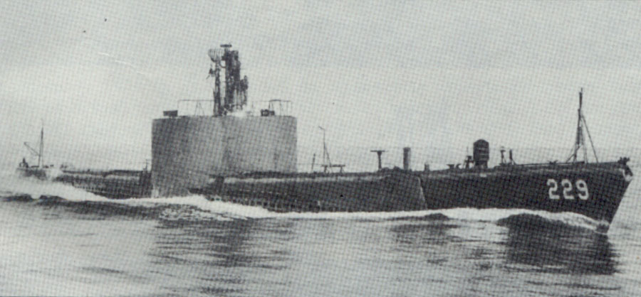 USS_Flying_Fish; "With lines reminiscent of the Civil War's Monitor, the Flying Fish (SS-229) was fitted with a unique round conning tower containing experimental sonar equipment." This is the GHG sonar salvaged from the former German cruiser Prinz Eugen. Date and location unknown. US Navy photo/ Sea Classics Magazine. Submitted by Lawrence W. Lee Jr.